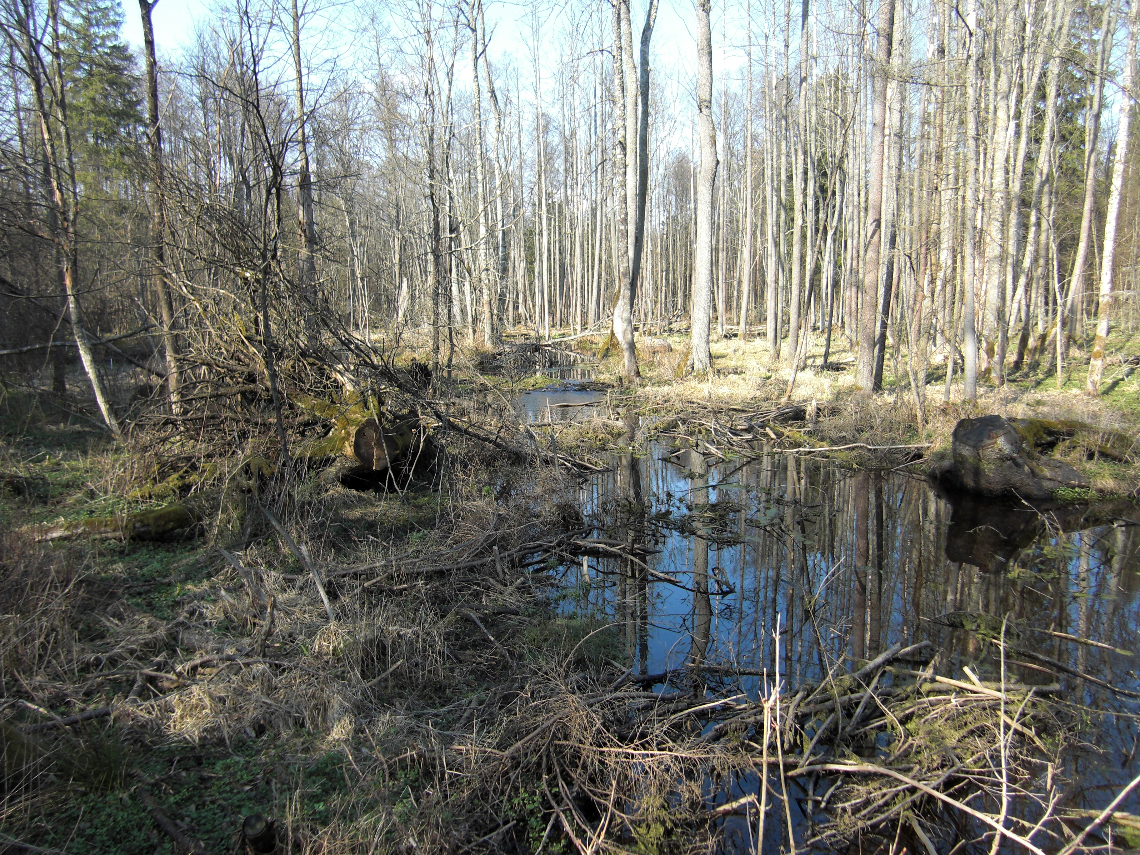 River Łutownia, 7th km from the spring